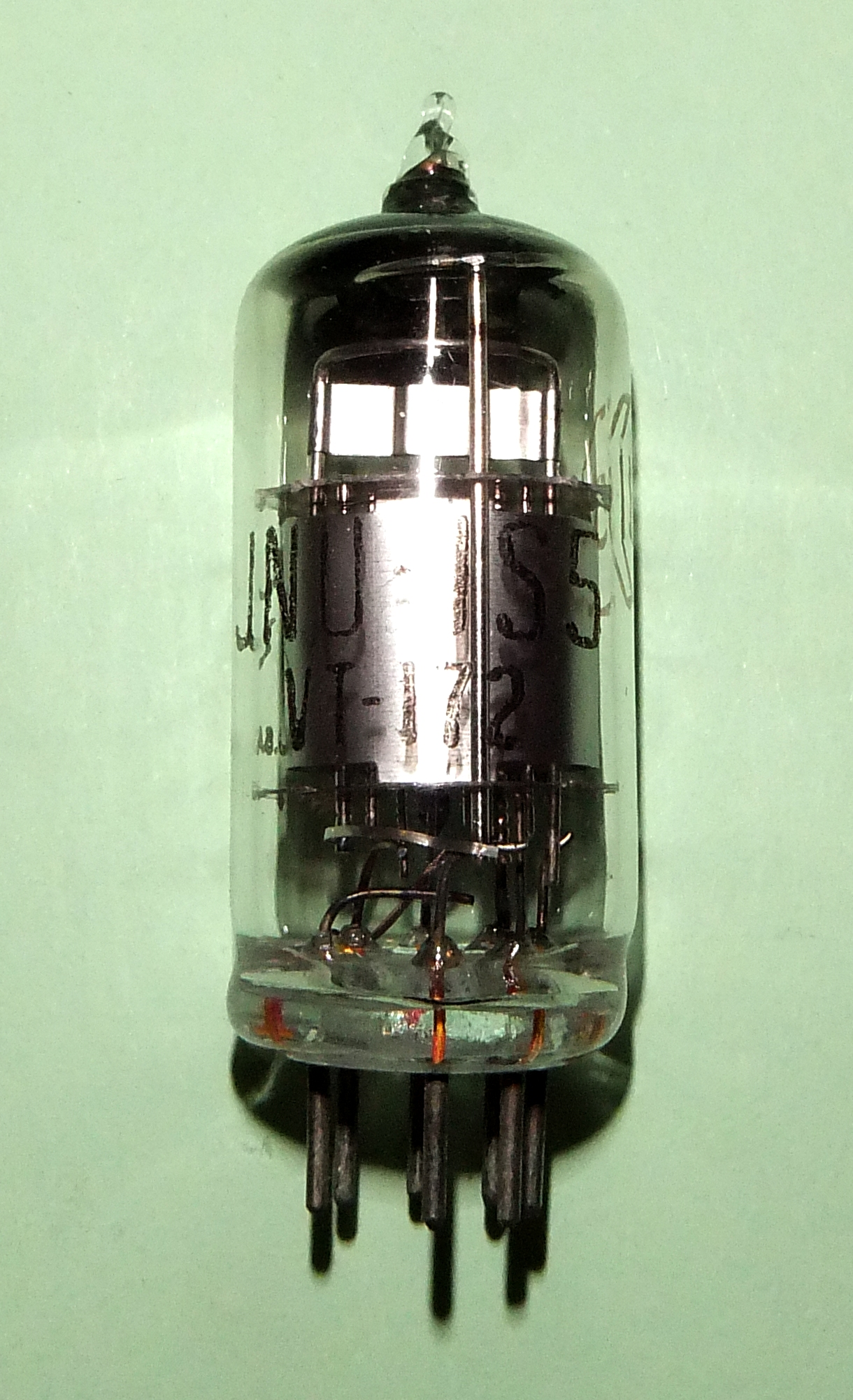 1S5T battery pentode plus diode